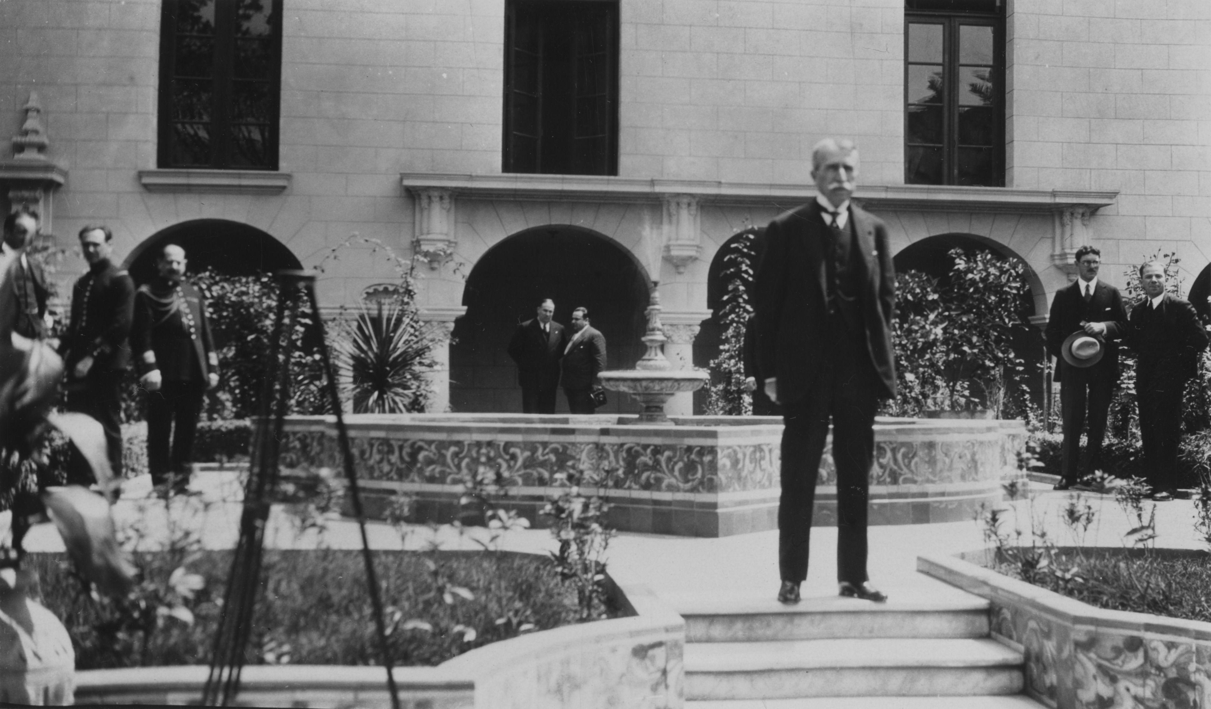 President Augusto B. Leguía of Peru